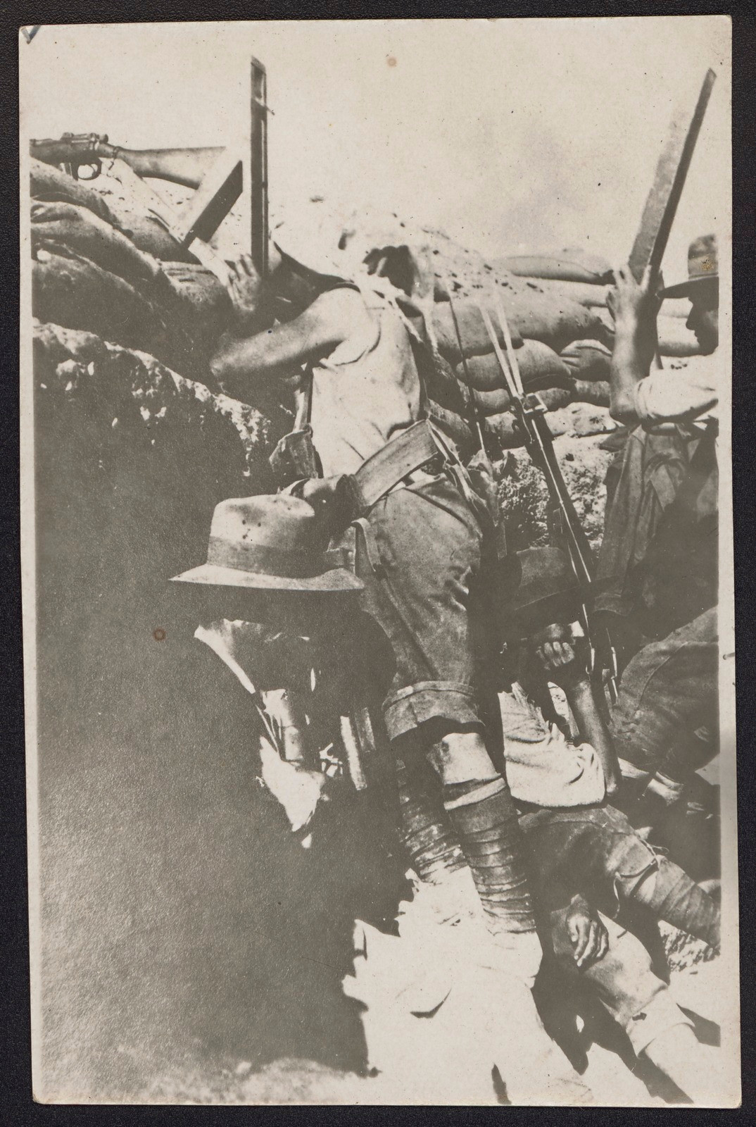 Australian soldiers in trenches at Anzac Cove 1915, from the Private Victor Rupert Laidlaw Collection. Australian Manuscript Collection. State Library Victoria